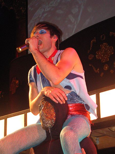 The Great American Music Hall, San Francisco, CA Photograph of Kevin Barnes as Georgie Fruit